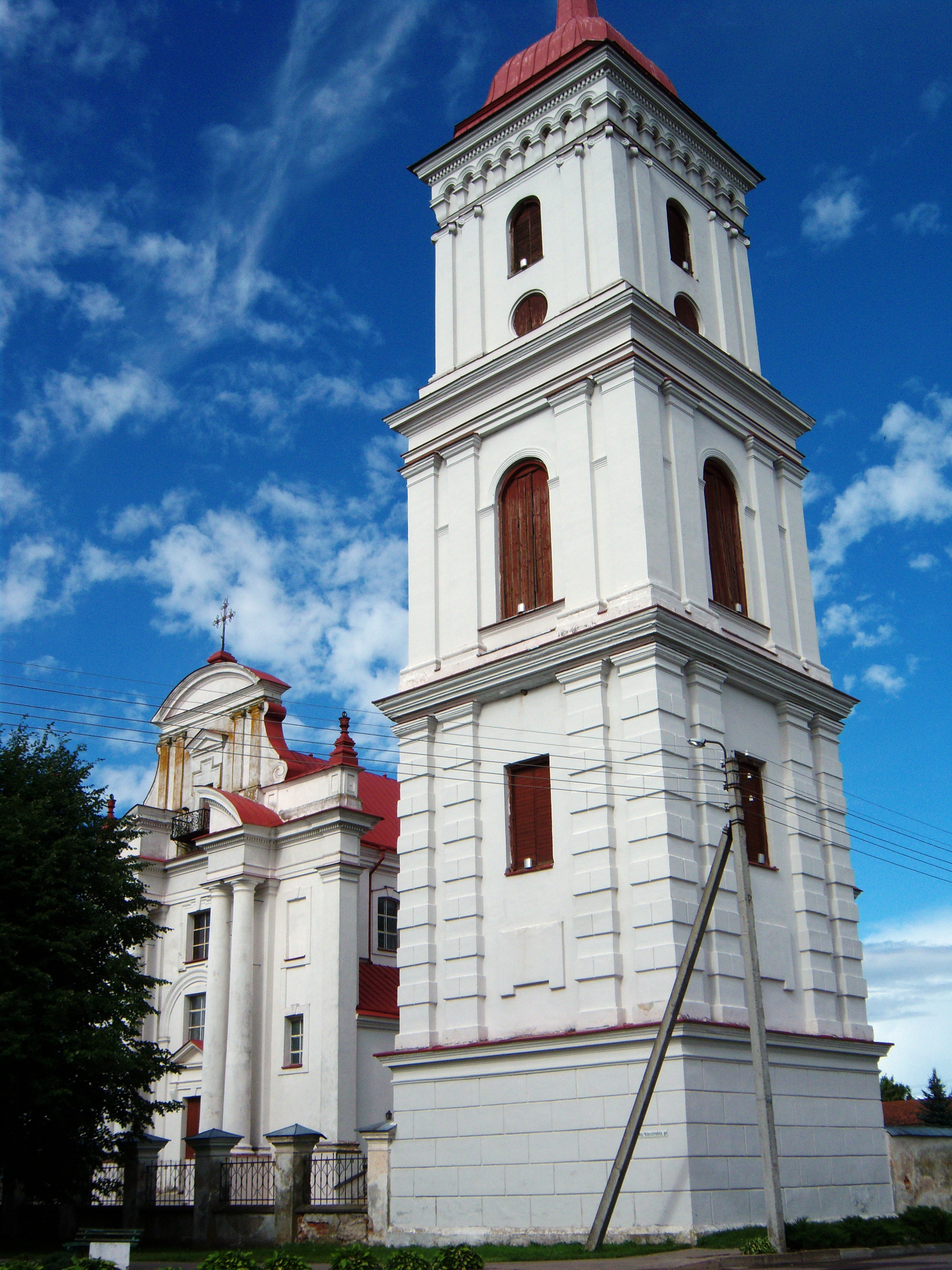 Belltower of Troškūnai church, Anykščiai District. Lithuania